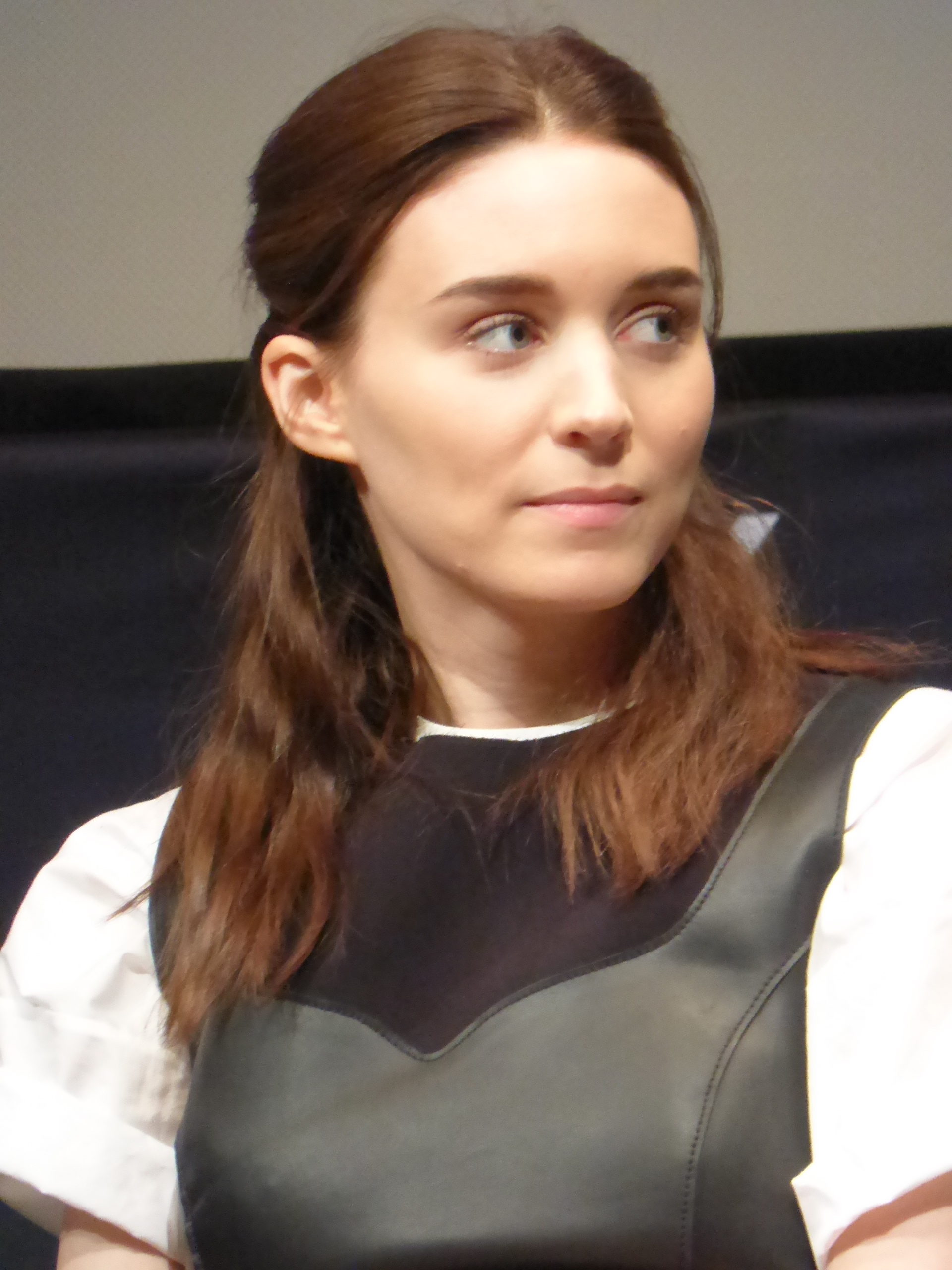 Rooney Mara at Her Press Conference in NYFF 2013